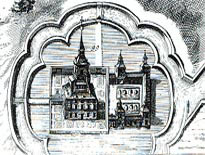 Ermita de san Antonio de los Portugeses, in the Buen Retiro Palace (Madrid, Spain). Detail of the map of Madrid, by Pedro Teixeira (1656)